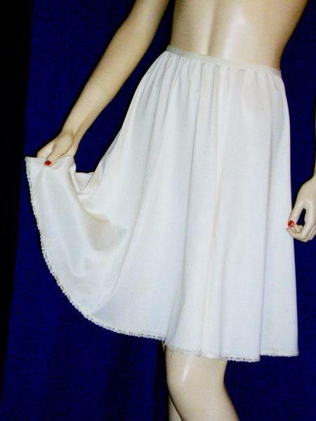 Flared half slip